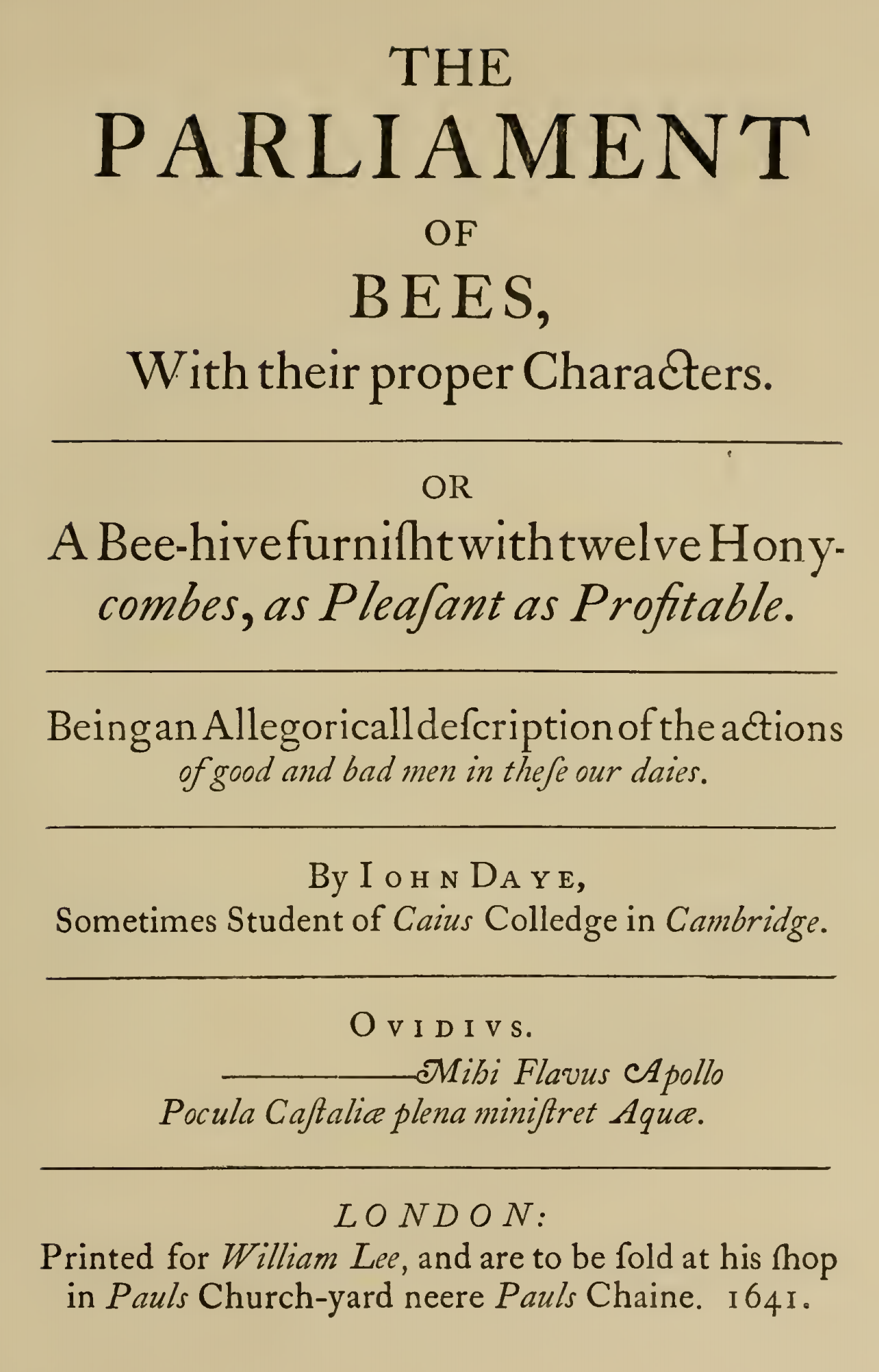 Title page of "The Parliament of Bees" by John Day (1641 edition), republished in 1881 by A. H. Bullen